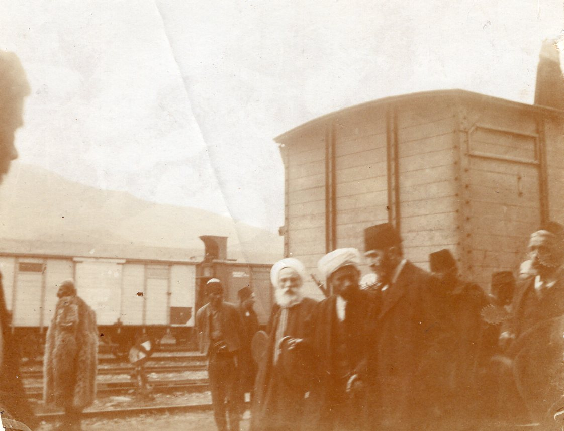 Hilmi Pasha in Skopje, come to finish off rebellion of Arnauts, 1912 This media file is produced by Wikipedian in Residence in Category:Wikipedian in Residence at DARM in 2016.